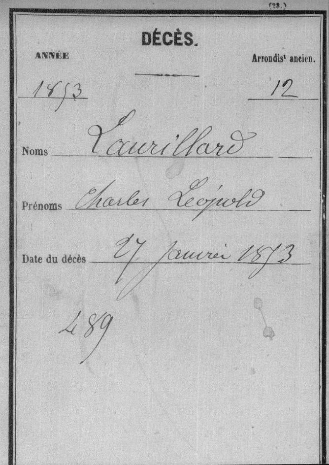 Death certificate Charles Léopold Laurillard